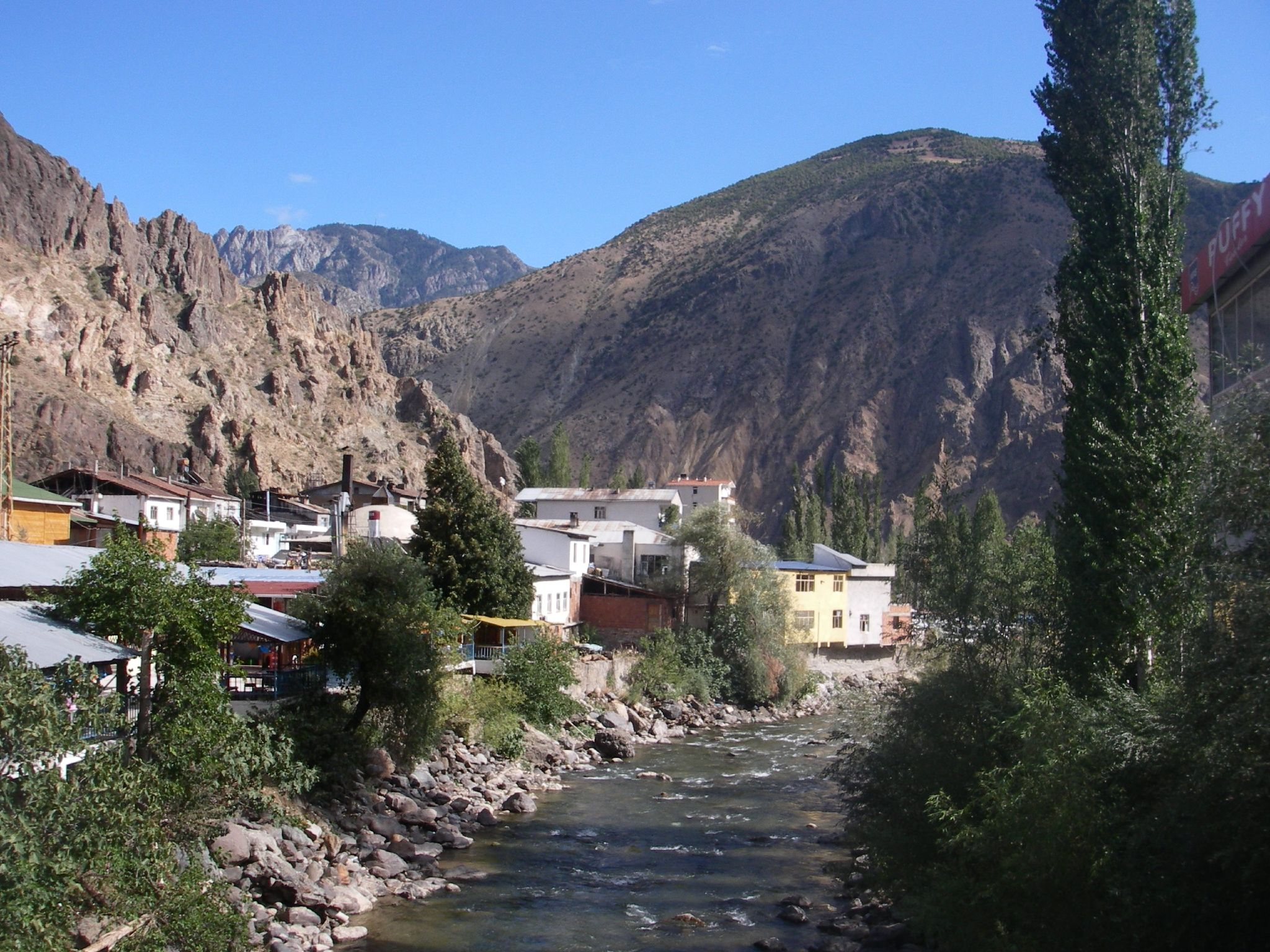 Yusufeli (Artvin Province, North-East Turkey)